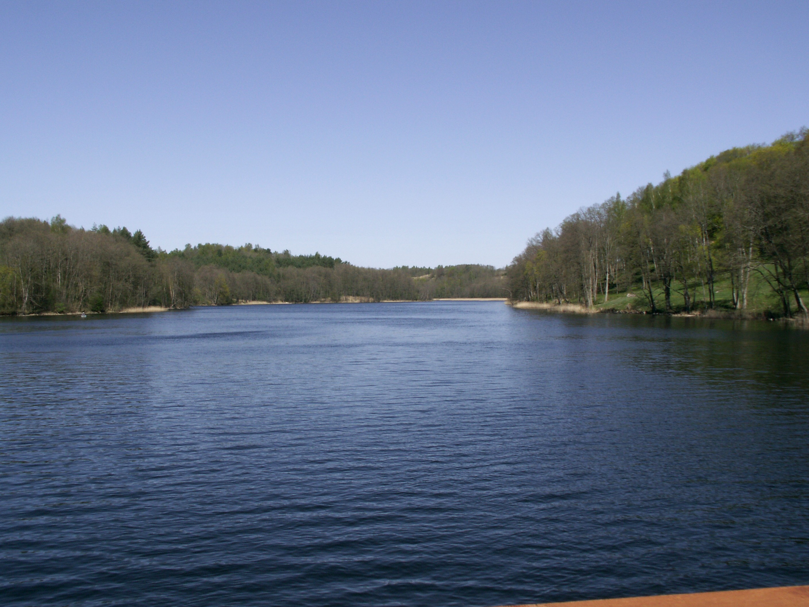 Asveja lake, Dubingiai, Lithuania